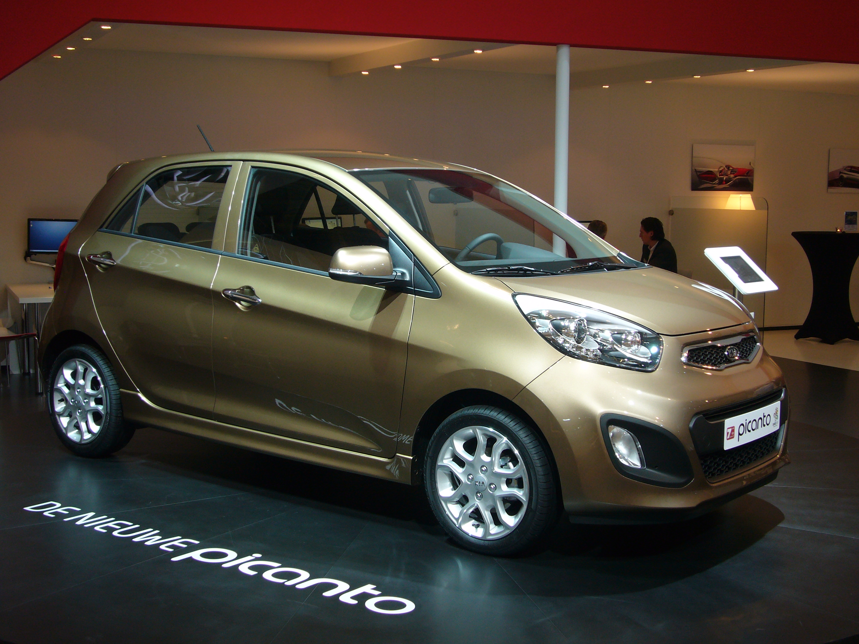 Kia Picanto (TA) 5 door at AutoRAI Amsterdam 2011